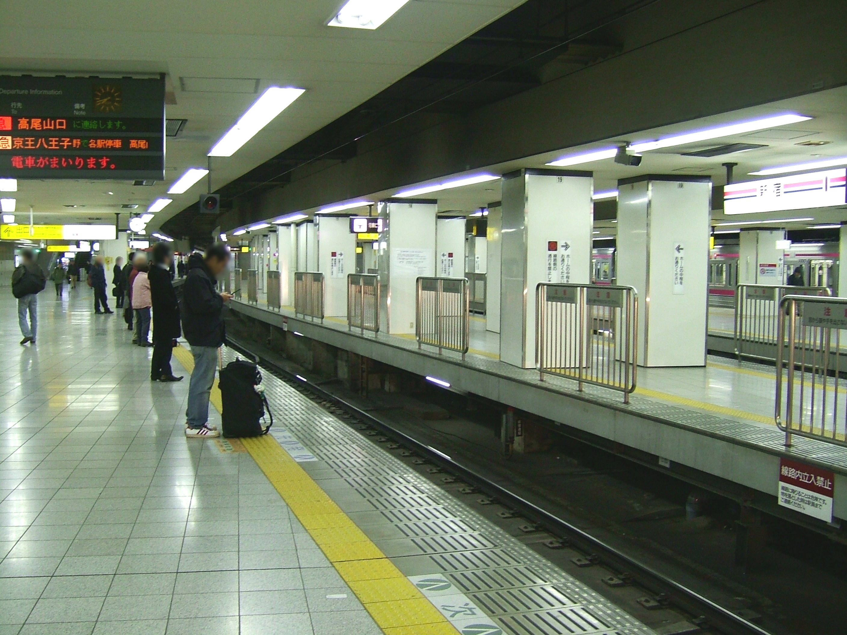 The platforms at Shinjuku Station on the Keiō Line in Shinjuku city, Tokyo, Japan